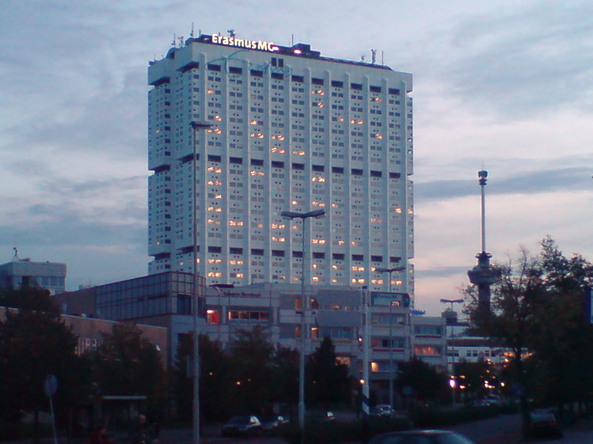 Medicine faculty of the Erasmus MC, taken in the afternoon